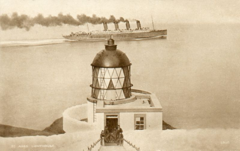 RMS Mauretania (1906) during her speed trials, heading south past St. Abbs Head Lighthouse. This picture was taken when RMS Mauretania was undergoing her unofficial sea trials. She has just completed the measured mile, to the north of St. Abbs Head.